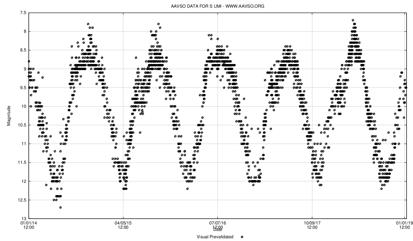 Light curve of the Mira Variable S Ursae Minoris using AAVSO data from 1-1-2014 to 1-1-2019 and generated using the light curve generator tool